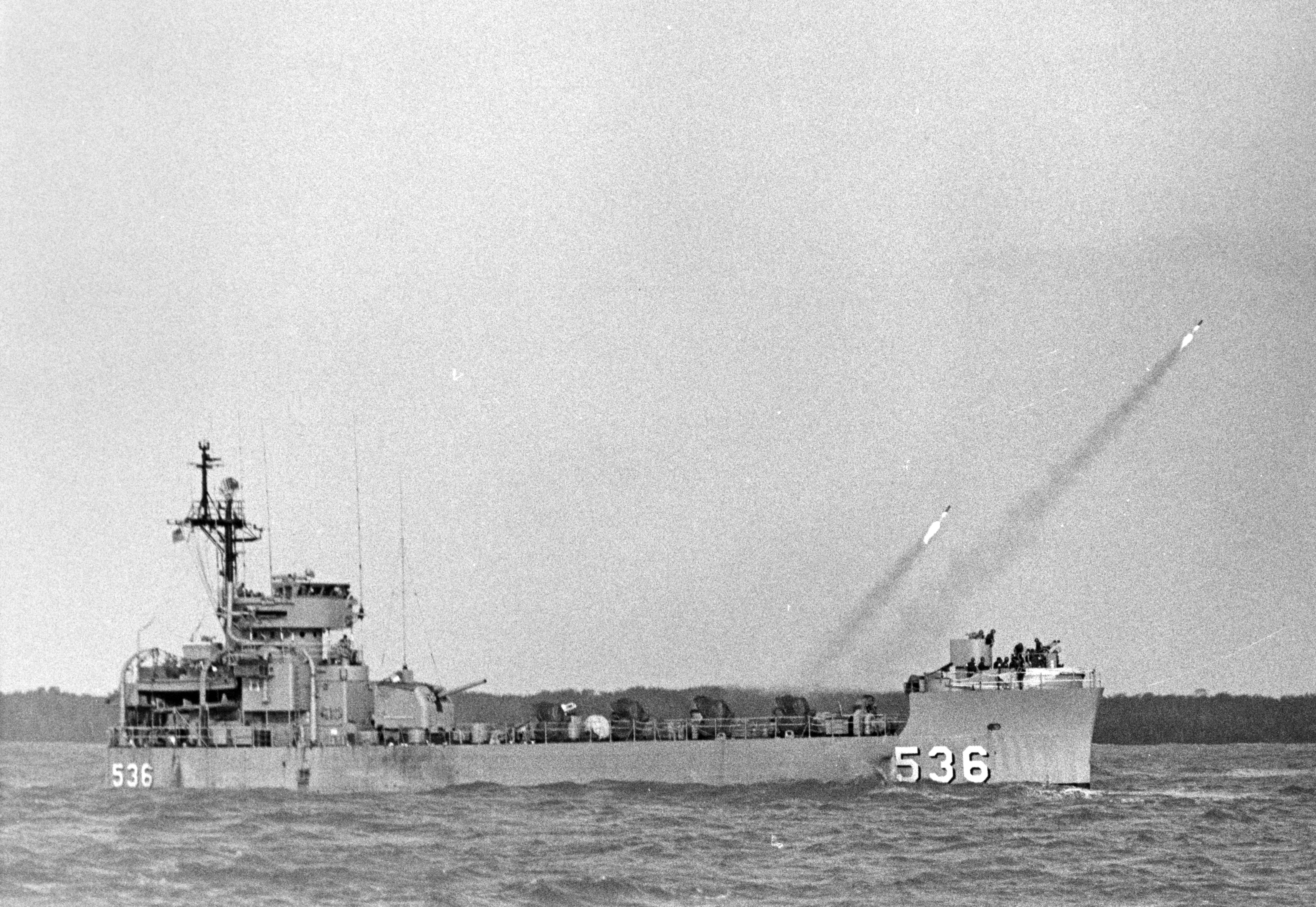 A salvo of rockets from the U.S. Navy inshore fire support ship USS White River (LFR-536) sprials skyward toward enemy targets along Bo De River in the IV Corps area of South Vietnam, circa in February 1969.